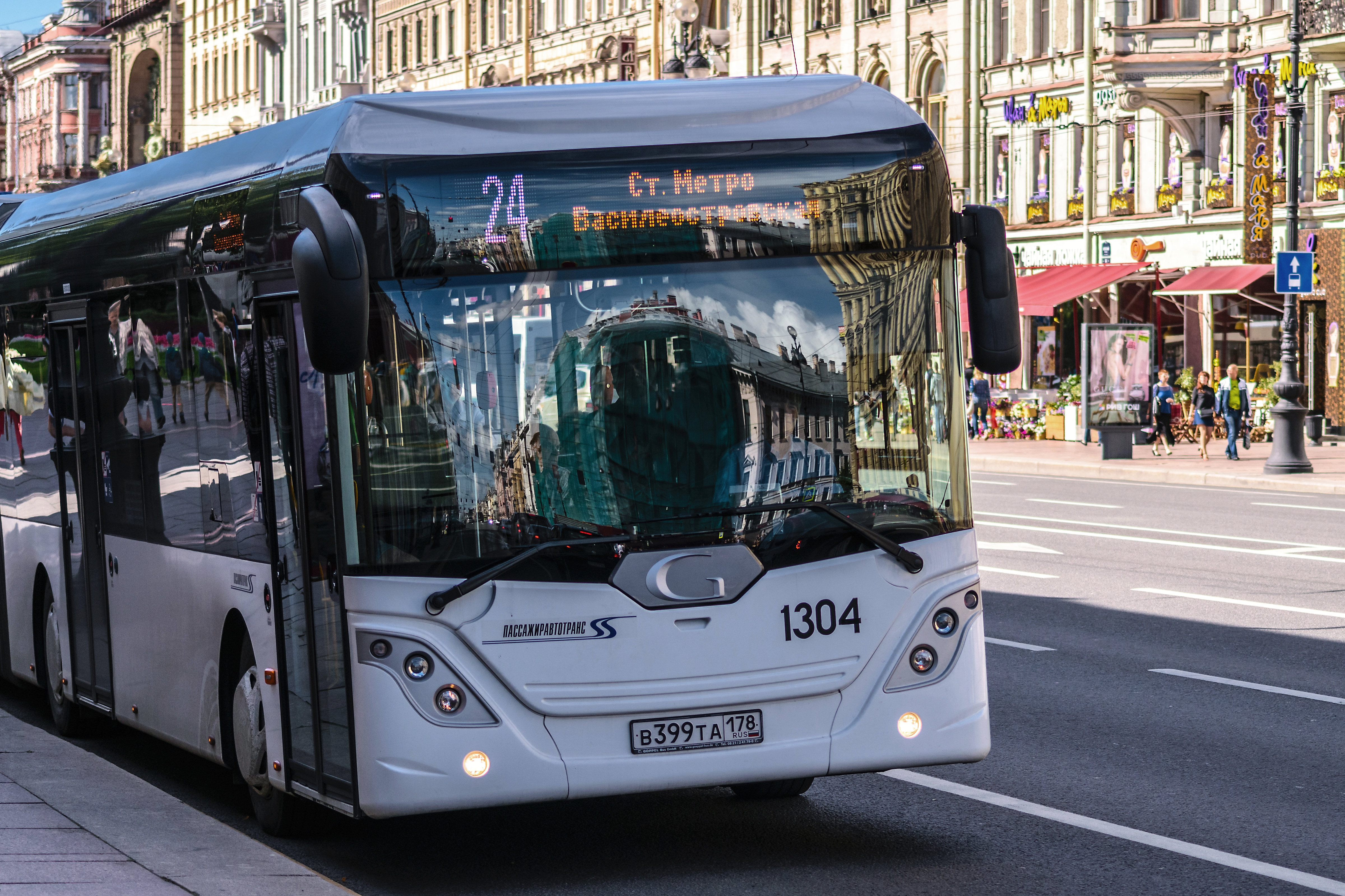 Bus Göppel Go4City 19 on Nevsky Avenue in Saint Petersburg